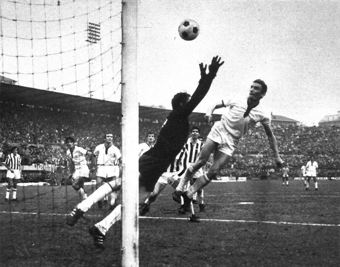 Turin (Italy), Communal Stadium, March 15, 1970. Juventus F.C. – U.S. Cagliari 2-2, Matchday 24 of the Italian League 1969–70 Serie A: Cagliari's forward Luigi "Gigi" Riva scores the partial 1-1.